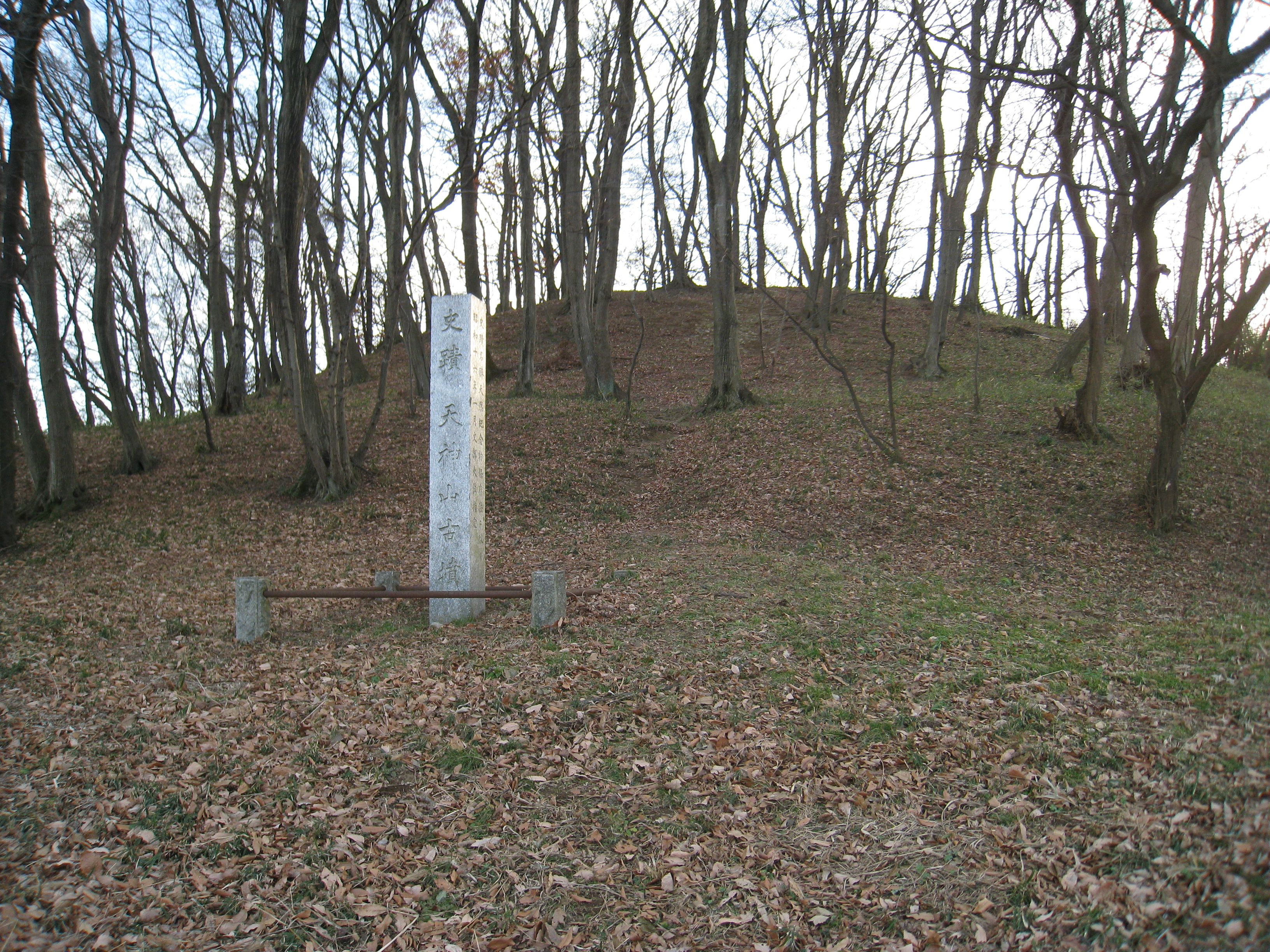 Ota Tenjin-yama Ancient Tomb